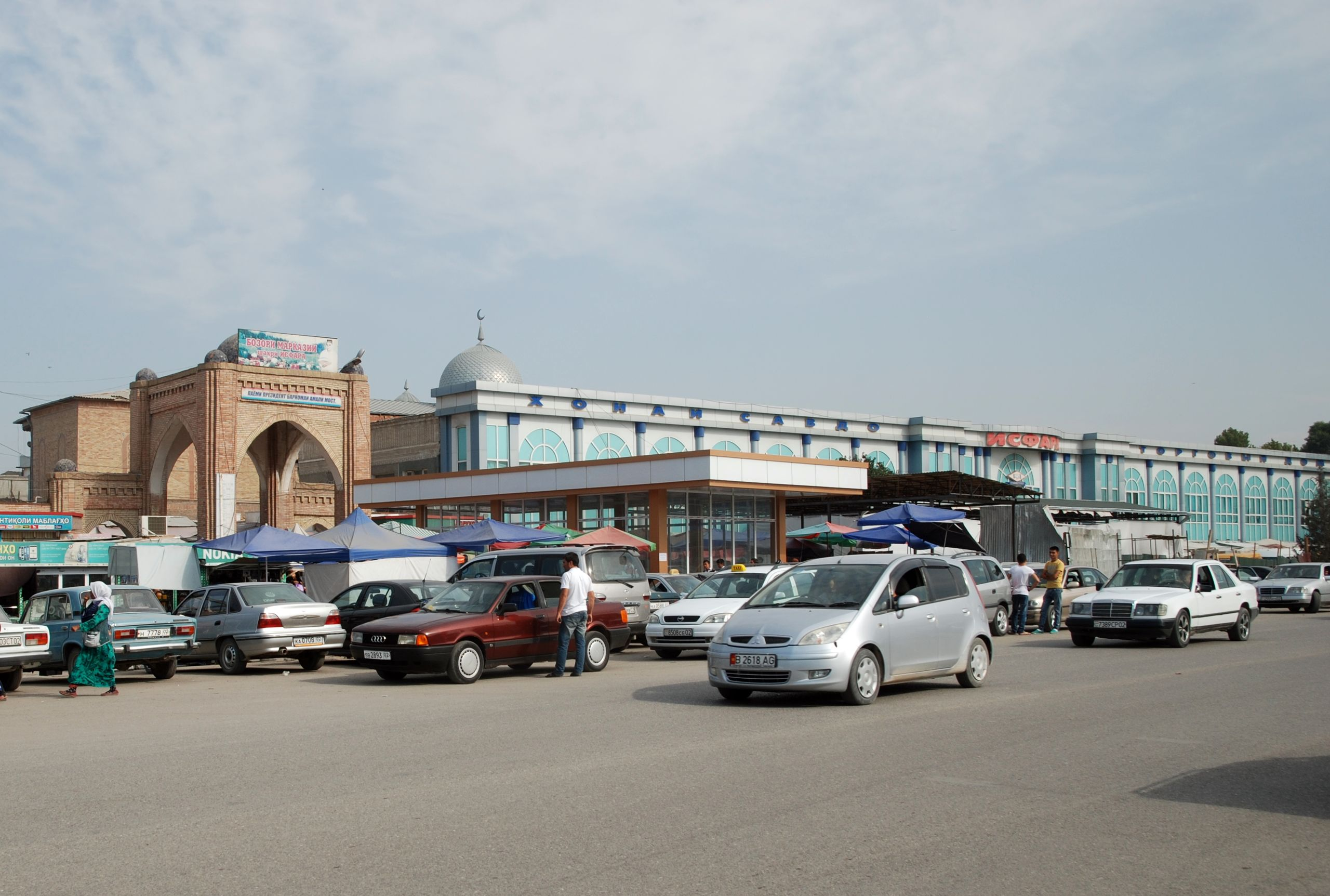 Isfara, main road at market